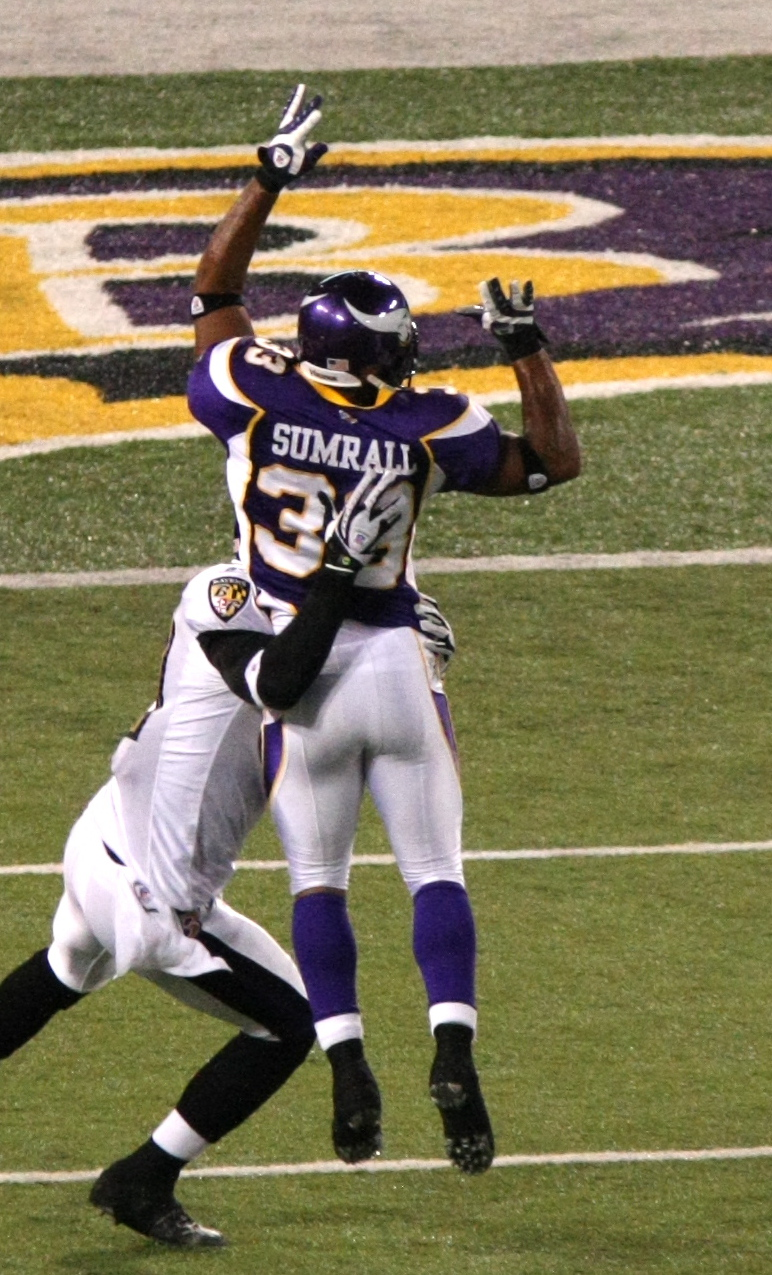 Husain Abdullah (#39) intercepting a ball.